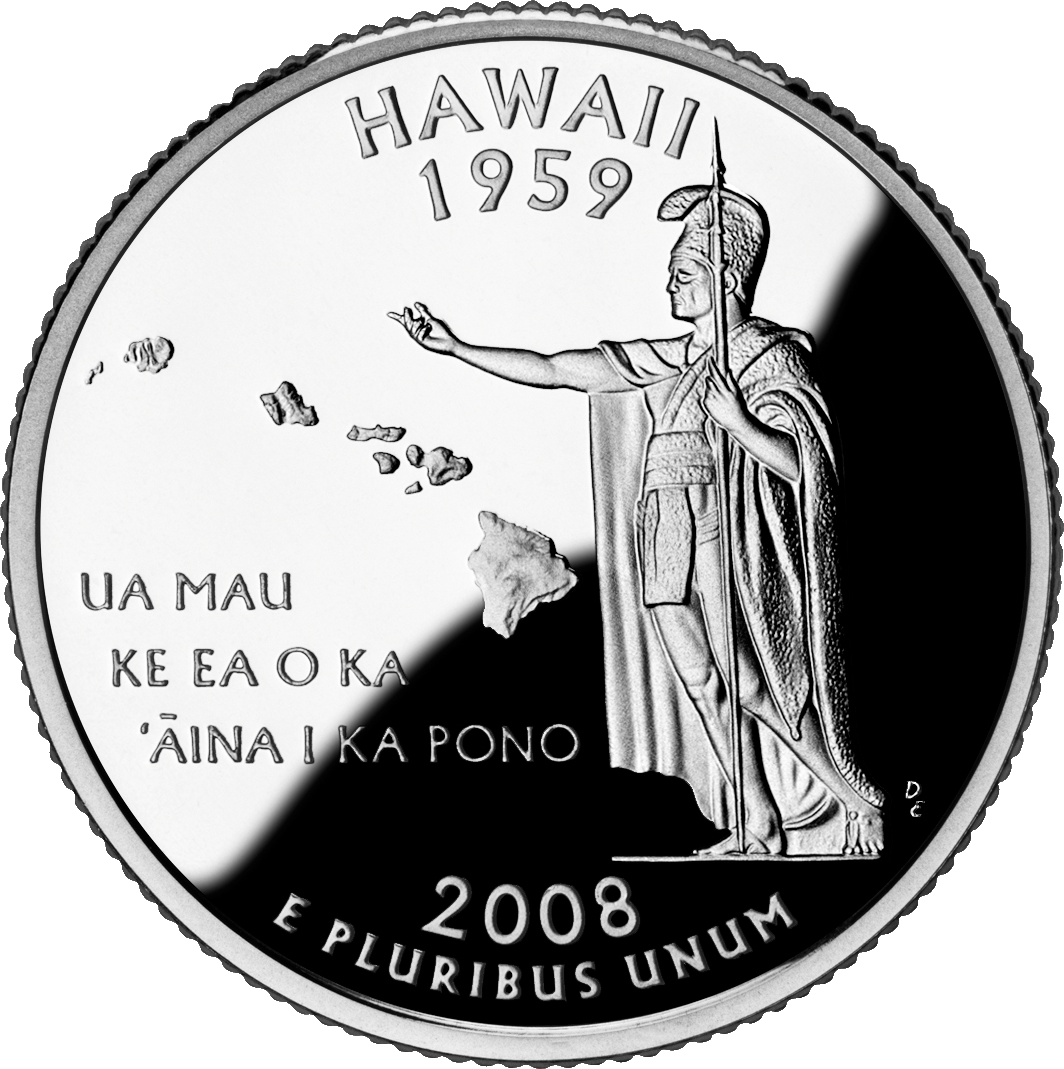 Removed background, cropped, and converted to PNG with Microsoft Photo Editor. This image depicts a unit of currency issued by the United States of America. If Fraudulent use of this image is punishable under applicable counterfeiting laws. As listed by the United States Secret Service at money illustrations, the Counterfeit Detection Act of 1992, Public Law 102-550, in Section 411 of Title 31 of the Code of Federal Regulations (31 CFR 411), permits color illustrations of U.S. currency provided:1. The illustration is of a size less than three-fourths or more than one and one-half, in linear dimension, of each part of the item illustrated;2. The illustration is one-sided; and3. All negatives, plates, positives, digitized storage medium, graphic files, magnetic medium, optical storage devices, and any other thing used in the making of the illustration that contain an image of the illustration or any part thereof are destroyed and/or deleted or erased after their final use. Certain coins contain copyrights licensed to the U.S. Mint and owned by third parties or assigned to and owned by the U.S. Mint [1]. For the United States Mint circulating coin design use policy, see [2]; for the policy on the 50 State Quarters, see [3]. Also: COM:ART #Photograph of an old coin found on the Internet